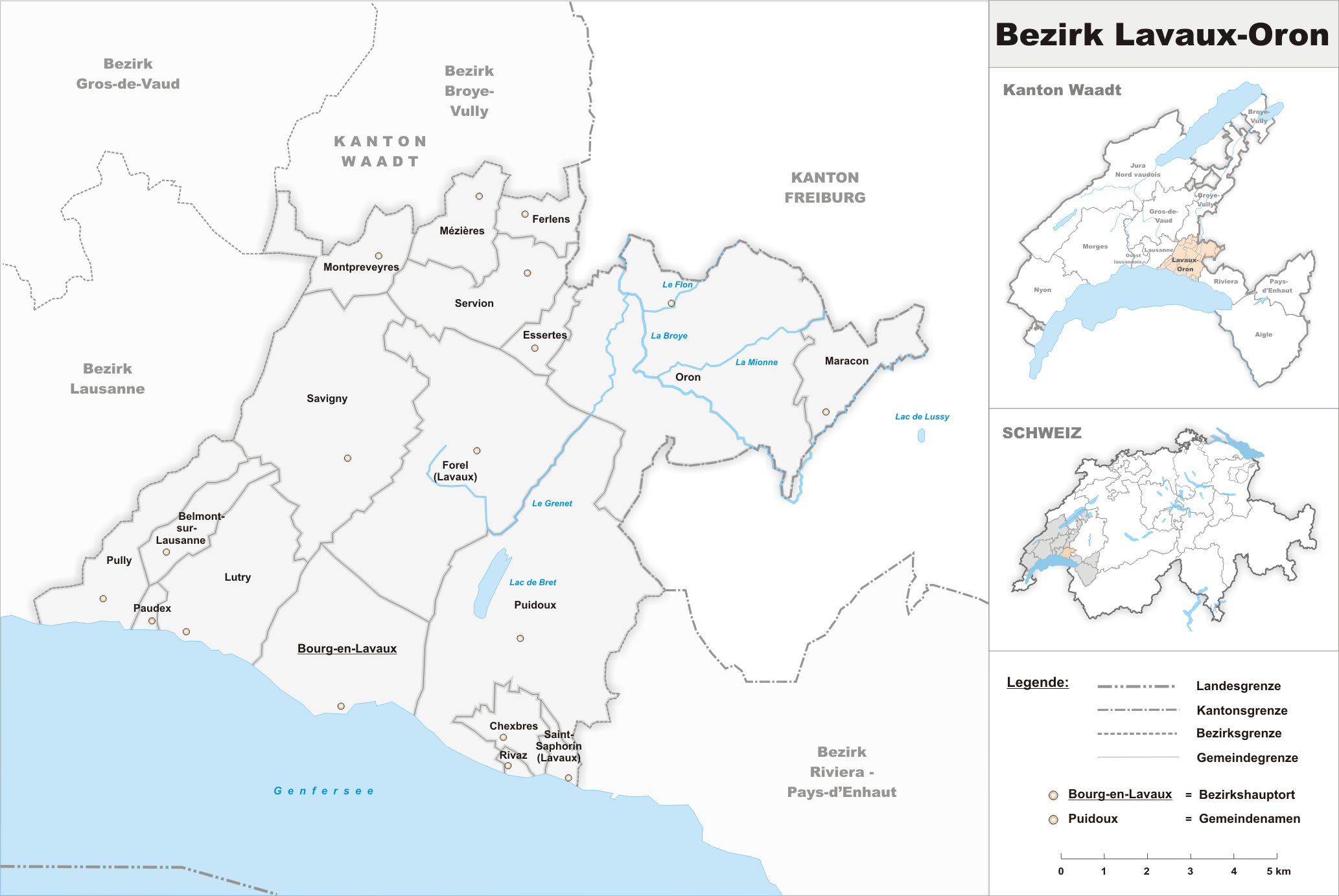 Municipalities in the district of Lavaux-Oron